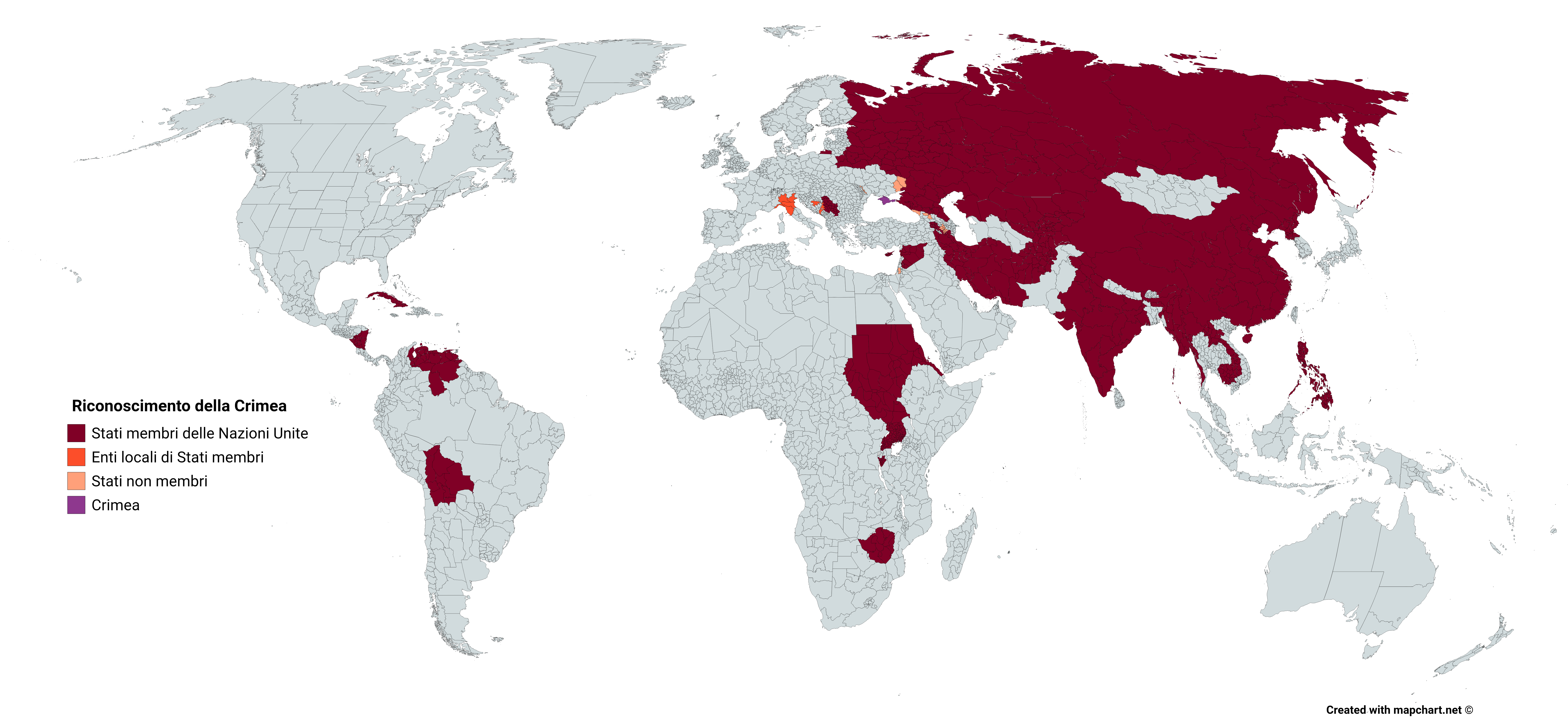 Recognition of Crimea as part of Russia — Key in